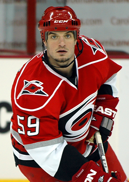 Chad LaRose of the Carolina Hurricanes skates during warmups before a game against the Buffalo Sabres on April 9, 2009.